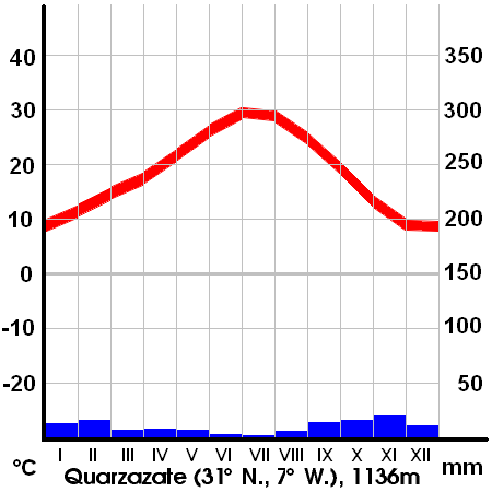 Climate diagram (in German) of Ouarzazate in Morocco created with